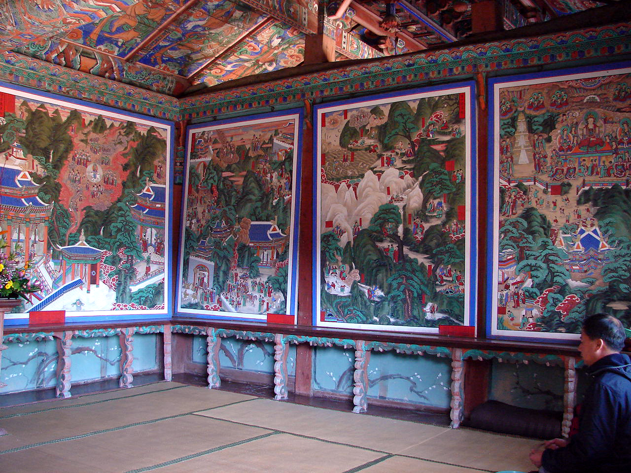 Beomeosa Palsangjeon - Hall of the Eight Murals. Palsang is a series of eight murals showing the events in the life of the historic Buddha: 1- Descending from Tusita Heaven, 2- Preparing for Birth, 3- Birth, 4- Leaving Home, 5- Overcoming Mara, the Spirit of Evil, 6- Enlightenment, 7- Teaching the Dharma and 8- Entering Nirvana. Beomeosa is a Buddhist temple in Busan, South Korea. Built on the slopes of Geumjeongsan, is one of the country's leading urban temples constructed in 678.